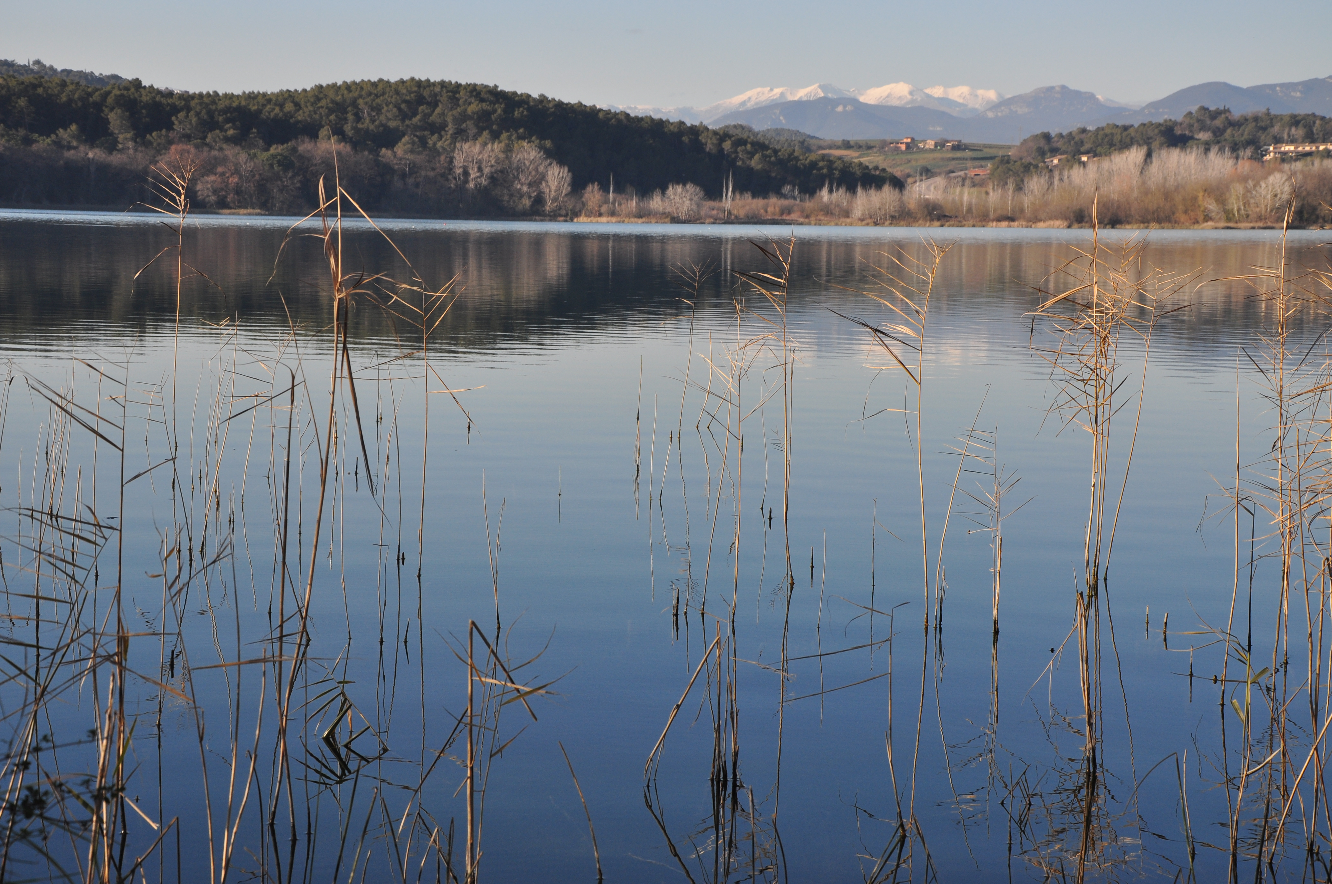 Banyolas lake